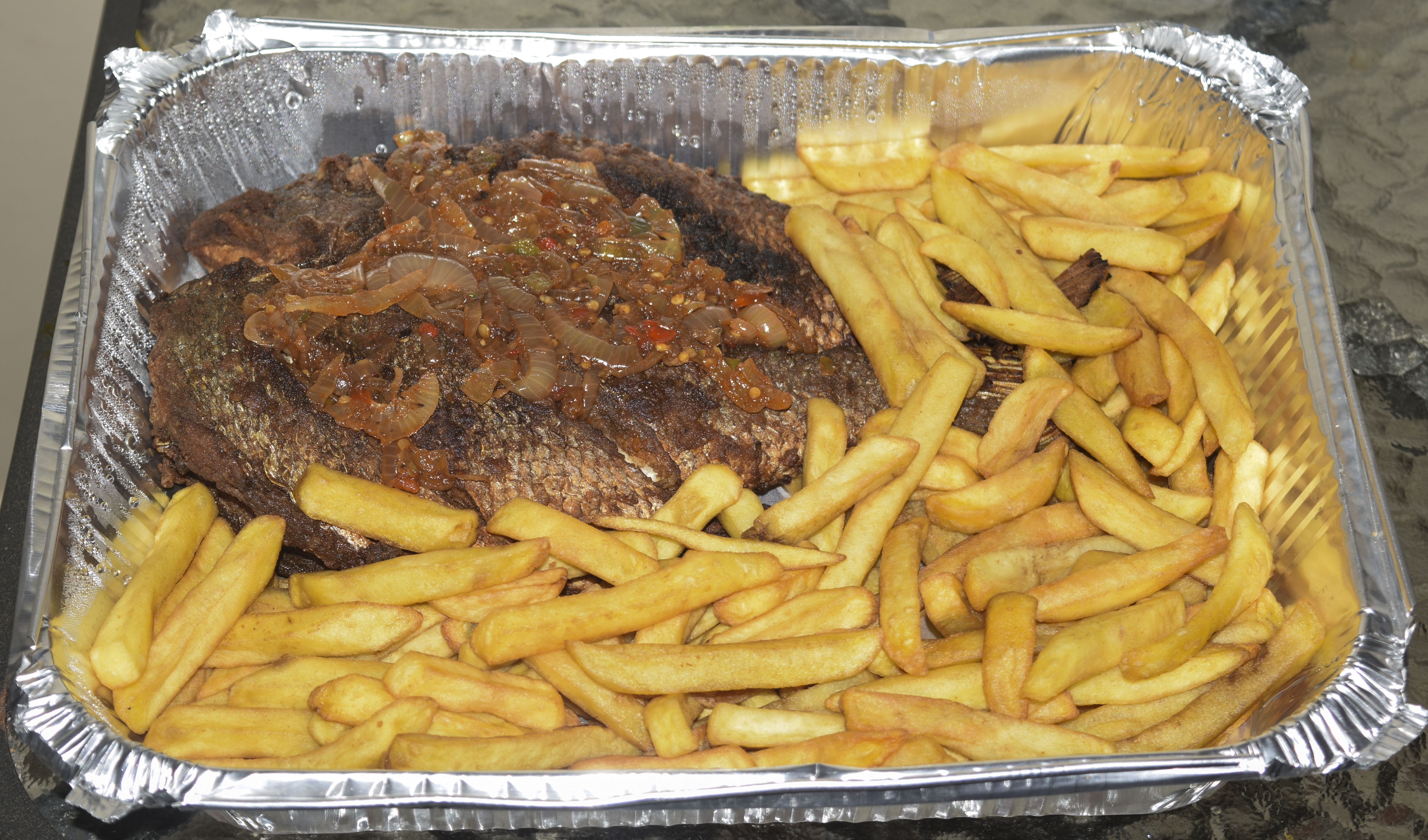 Home-made fish and chips with pepper source This is an image of food from Sierra Leone